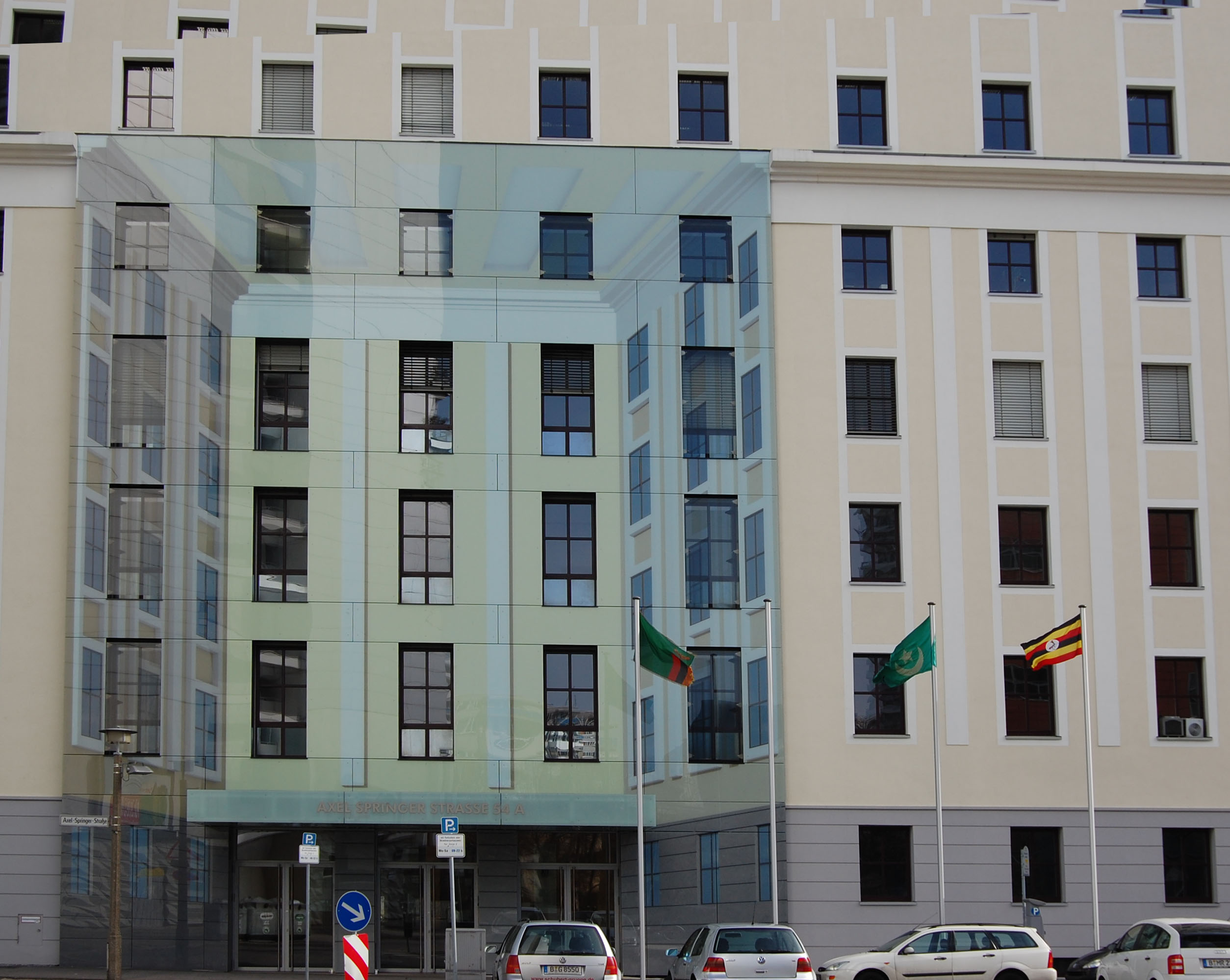 Publishers House Volk und Wissen in Berlin with Embassies of Zambia, Mauretania, Zimbabwe and Azerbaijan in Berlin